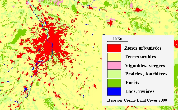 Land use arround Toulouse